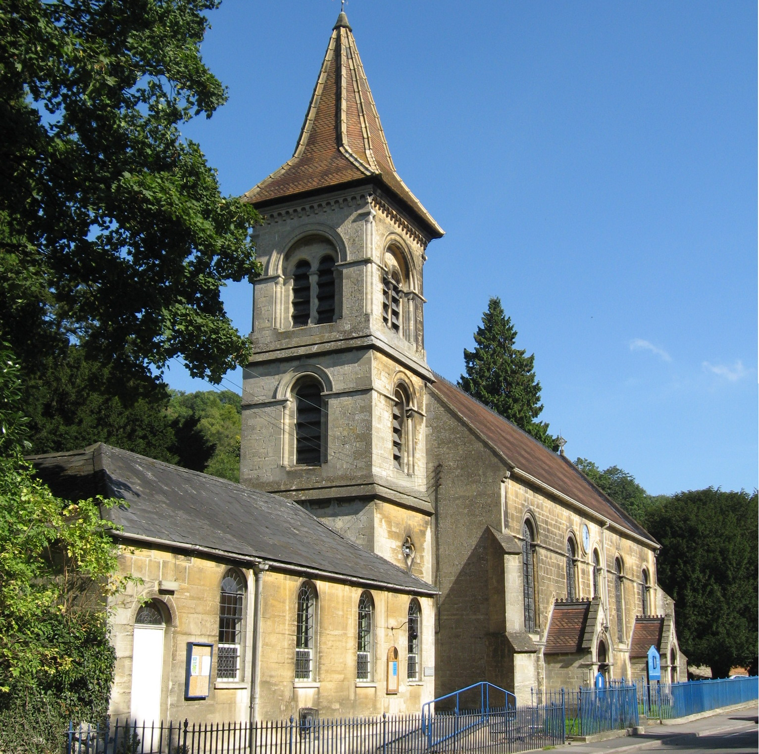 Christchurch, Chalford, England.